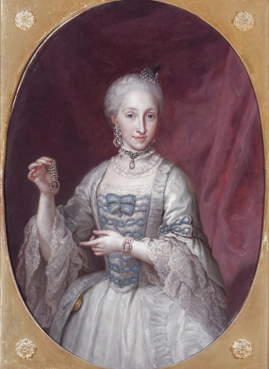 Portrait of Infanta Maria Josefa of Spain (1744-1801)